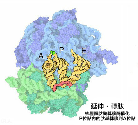 peptide transfer